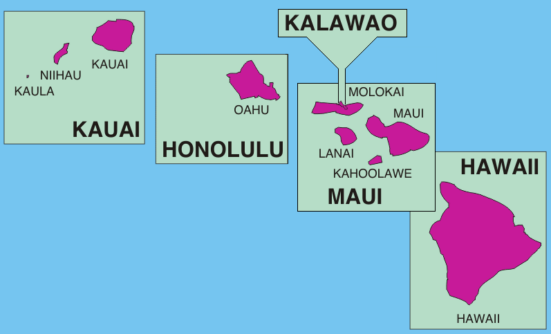 New map for Hawaii, using File:Hawaii_map.png for reference.